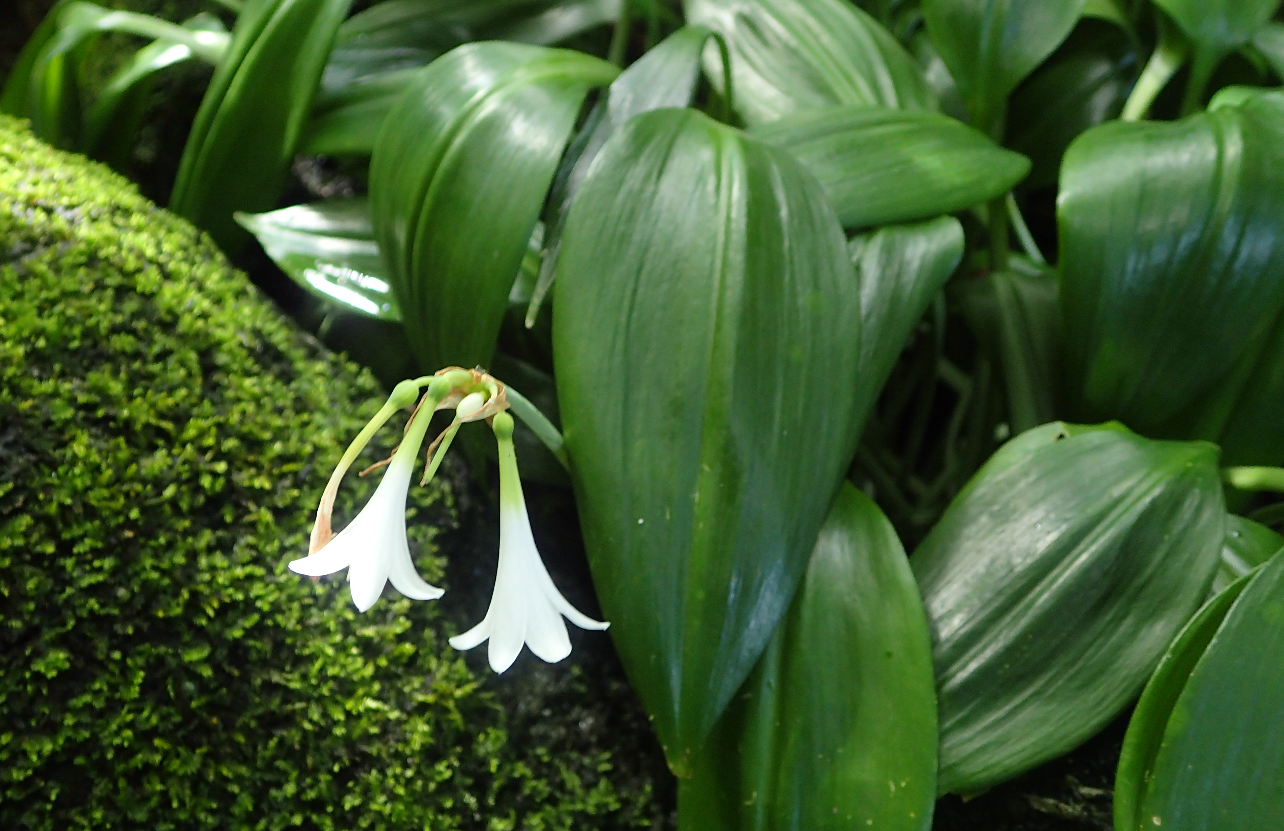 Caliphruria subedentata at the New York Botanical Garden